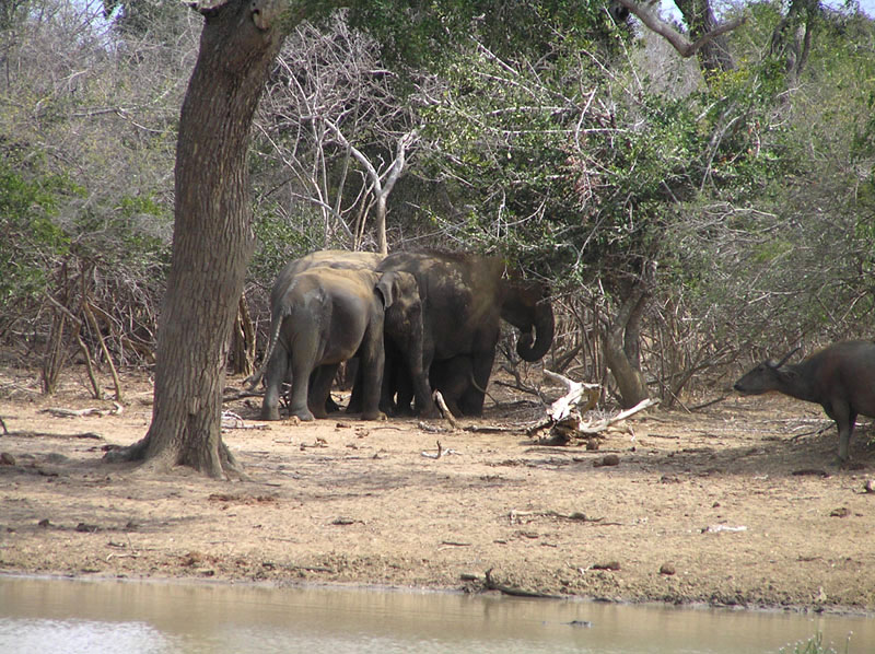 my picture